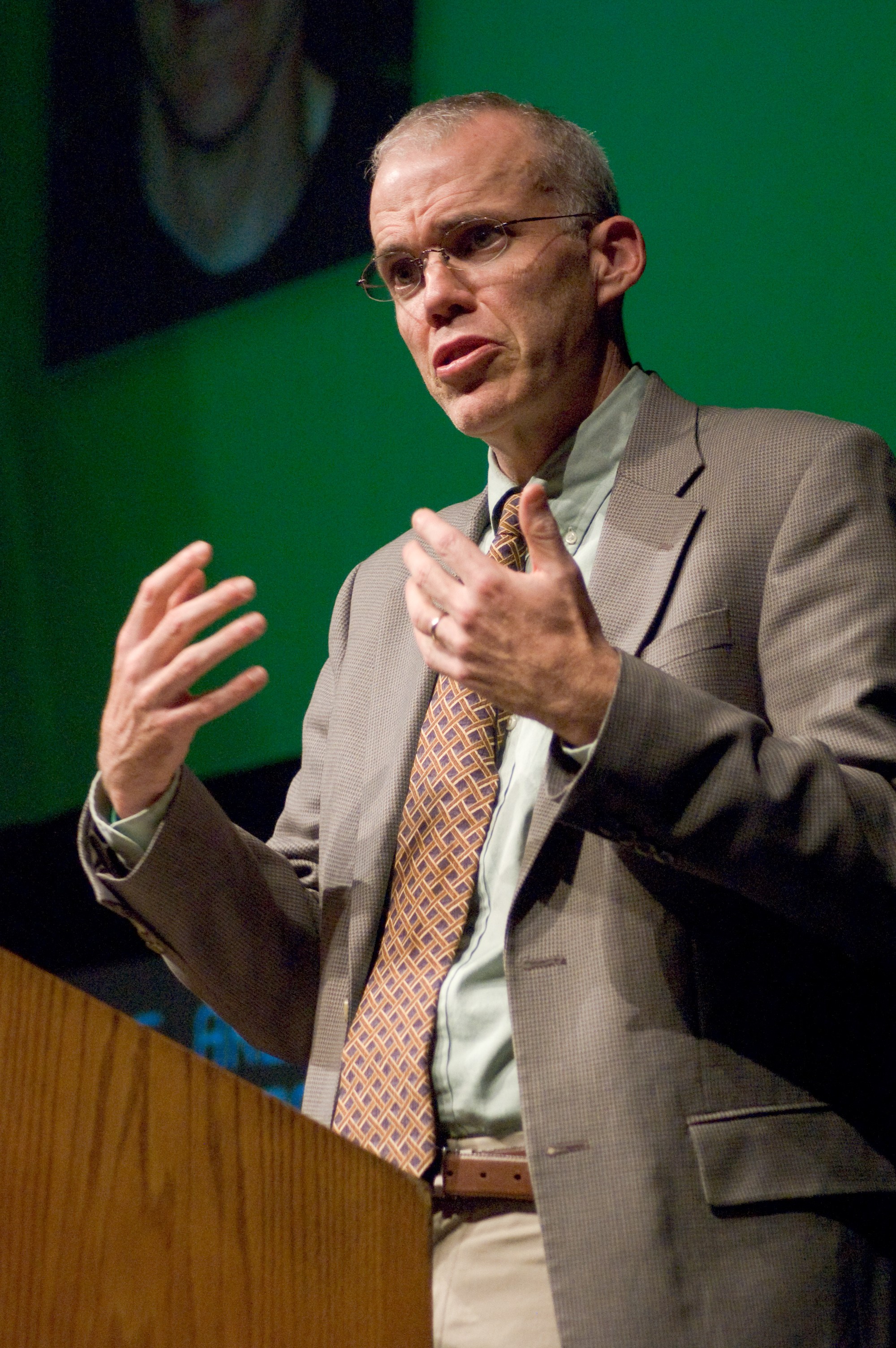 Bill McKibben speaks at Rochester Institute of Technology about , consumerism, the economy, and his organizations, and Step It Up. McKibben's book, Deep Economy, was the common reading for all incoming freshman for the fall 2008 quarter at RIT.